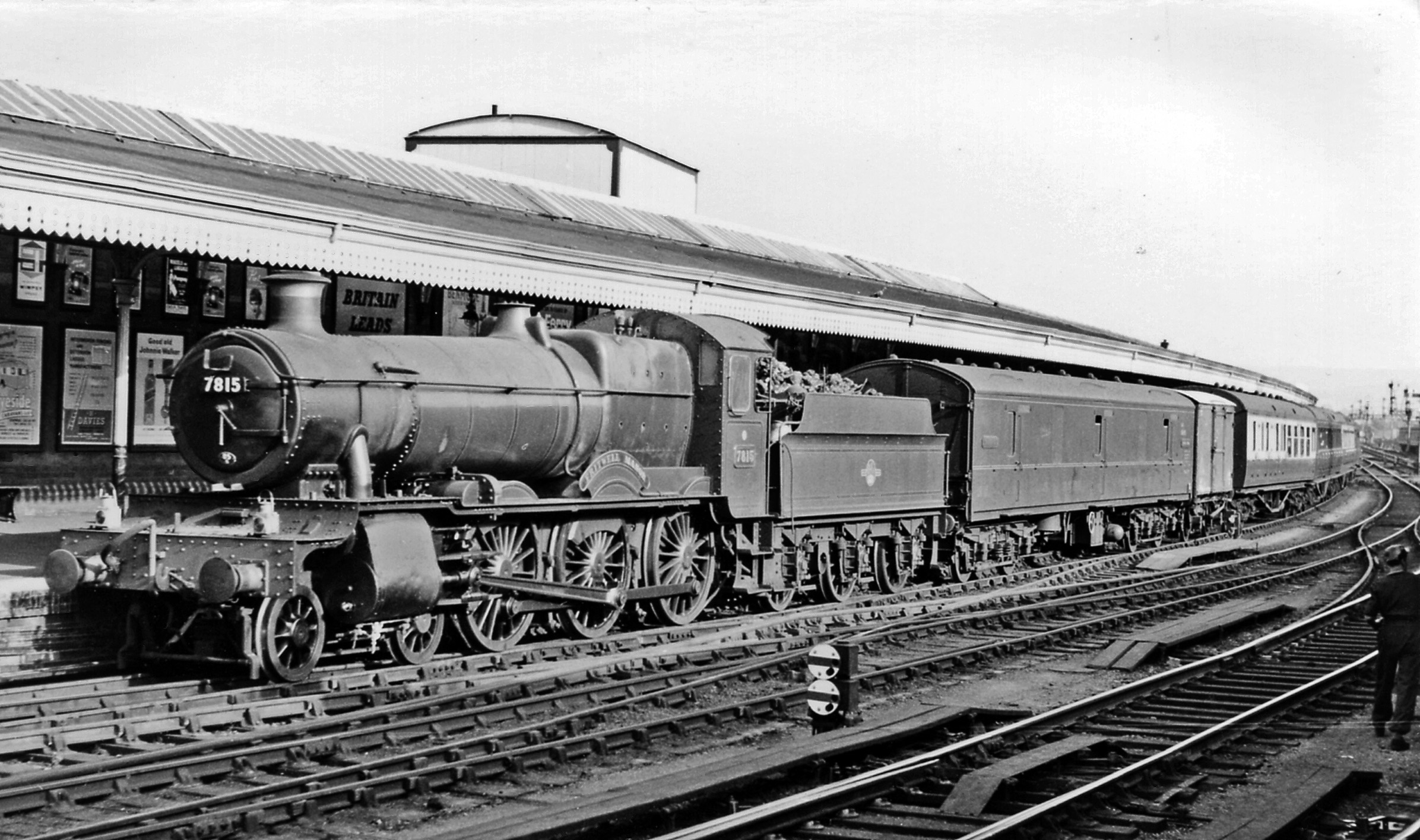 Gloucester Central Station, with a stopping train to Hereford. View eastward, towards Cheltenham and everywhere except westward; ex-GW Swindon/Cheltenham - South Wales main line. The locomotive is 4-6-0 'Manor' No. 7815 'Fritwell Manor' (built 1/39, withdrawn 9/65).